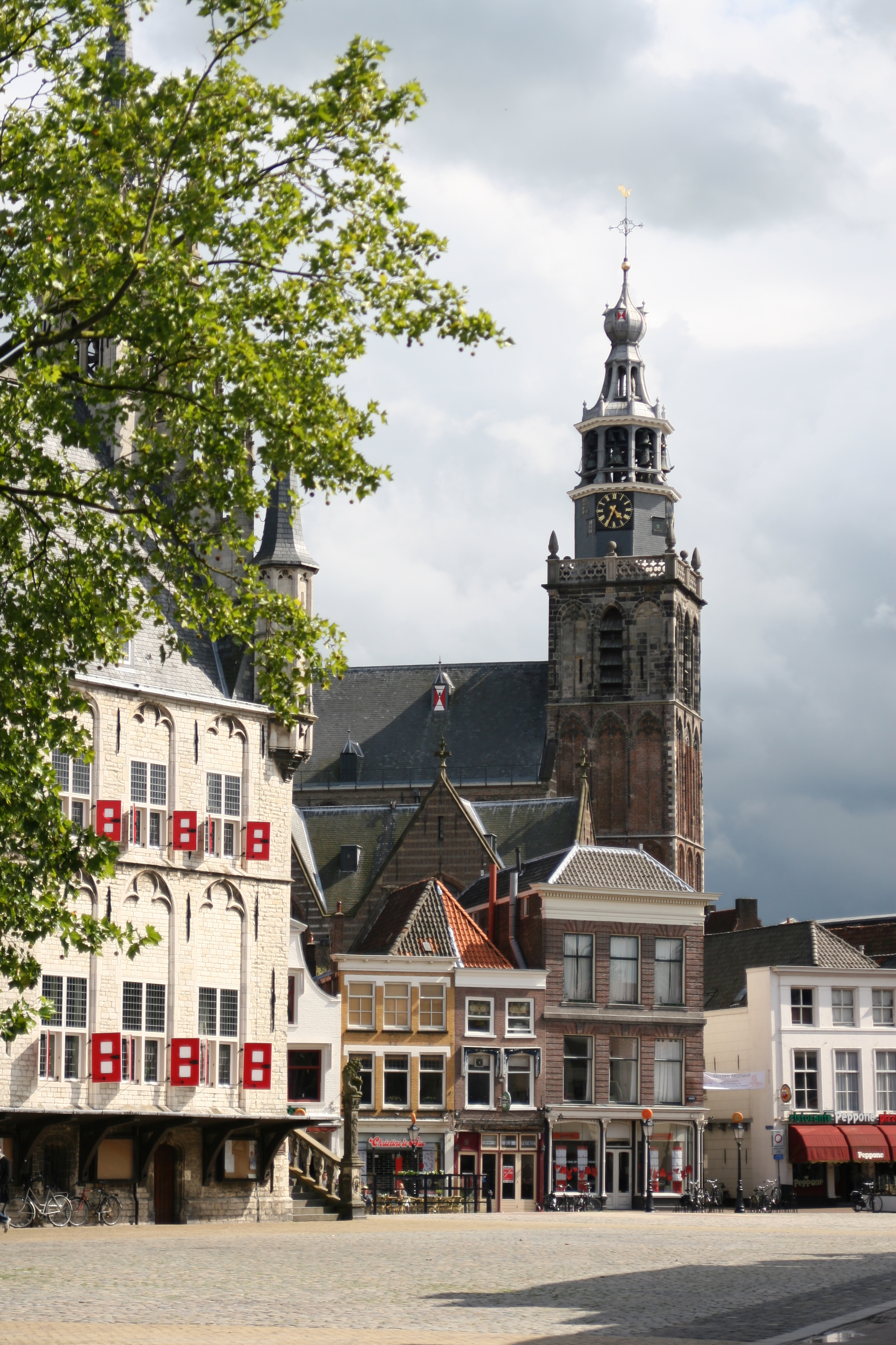 Market square of Gouda with the city hall on the left and the Sint-Janskerk centered in the background.